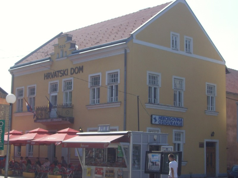 Croatian house in Bugojno, Bosnia and Hercegovina, Europe